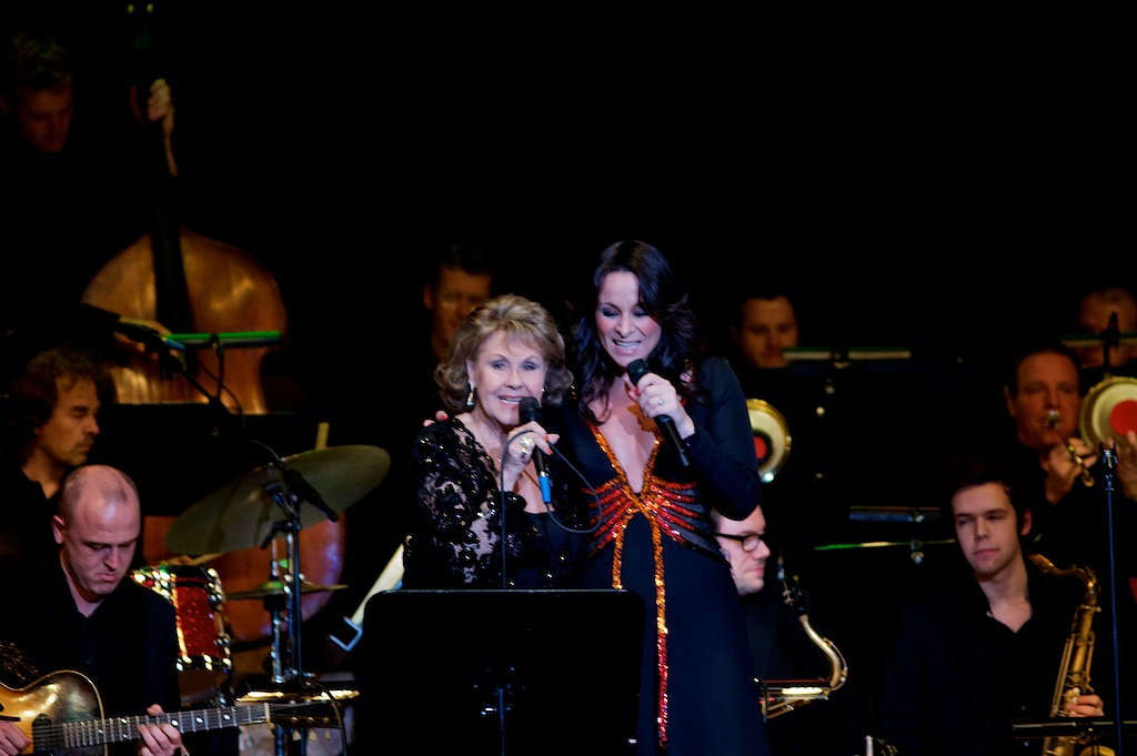 Rita Reys & Trijntje Oosterhuis, singing at the Amsterdam Concertgebouw, accompanied by the Jazz Orchestra of the Concertgebouw (directed and arranged by Henk Meutgeert) - Thursday 17 December 2009